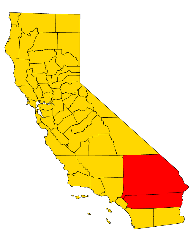 A map of the Inland Empire (California) metropolitan area of California, which consists of the counties of Riverside and San Bernadino.